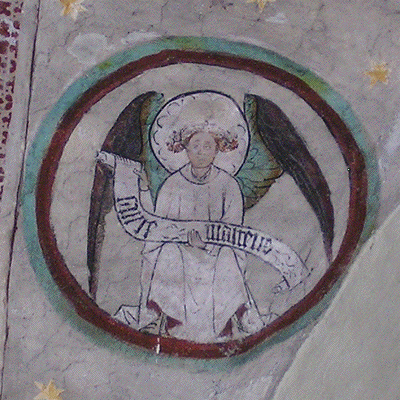 Matthew the Evangelist in Överselö kyrka